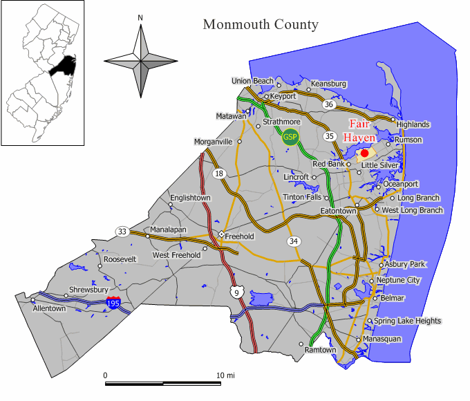 Source: Jim Irwin